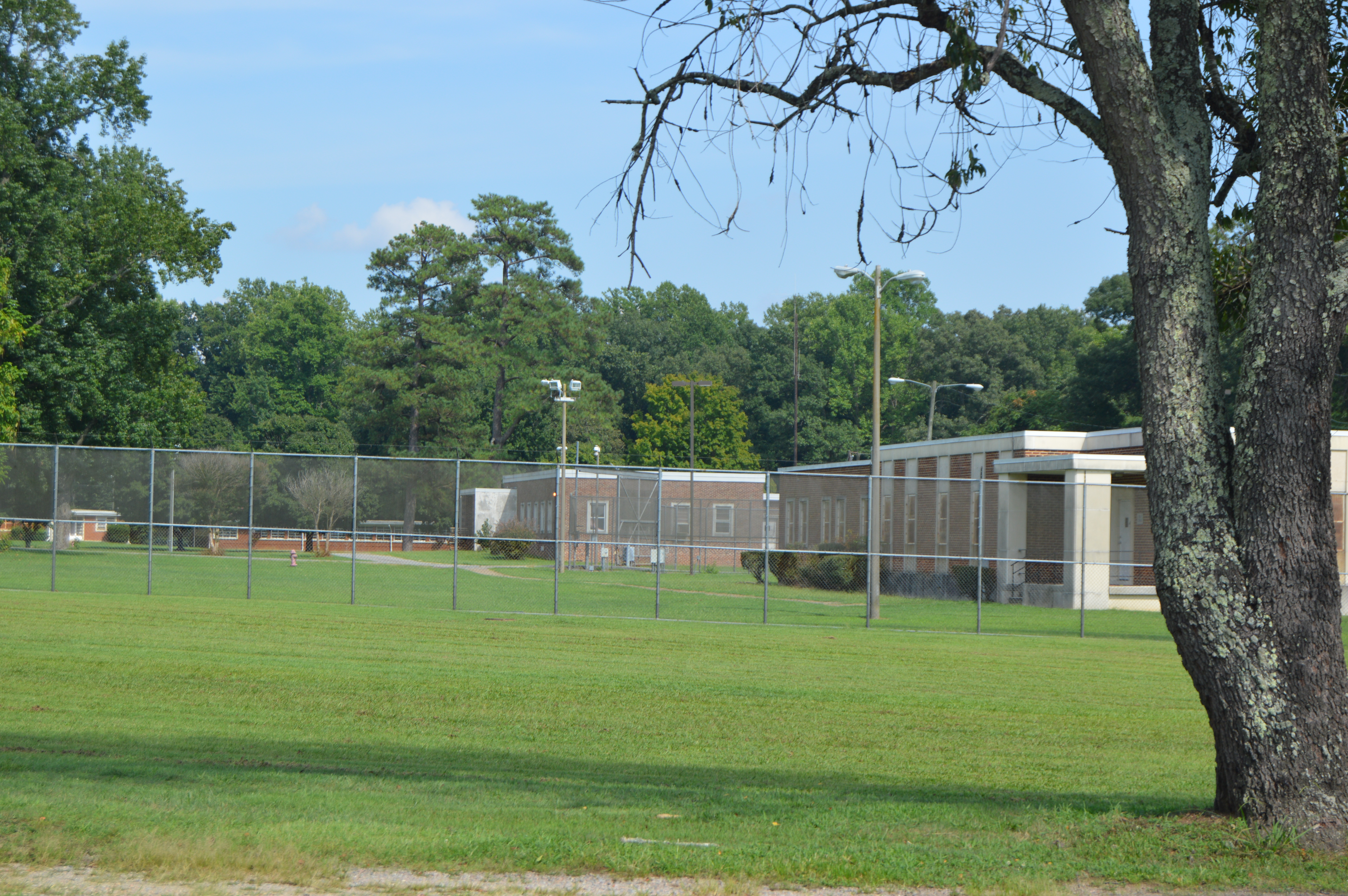 Buildings at the former Barrett Juvenile Correctional Center, located off Georgetown Road south of Hanover Court House in Hanover County, Virginia, United States. Built in 1915, it is listed on the National Register of Historic Places.